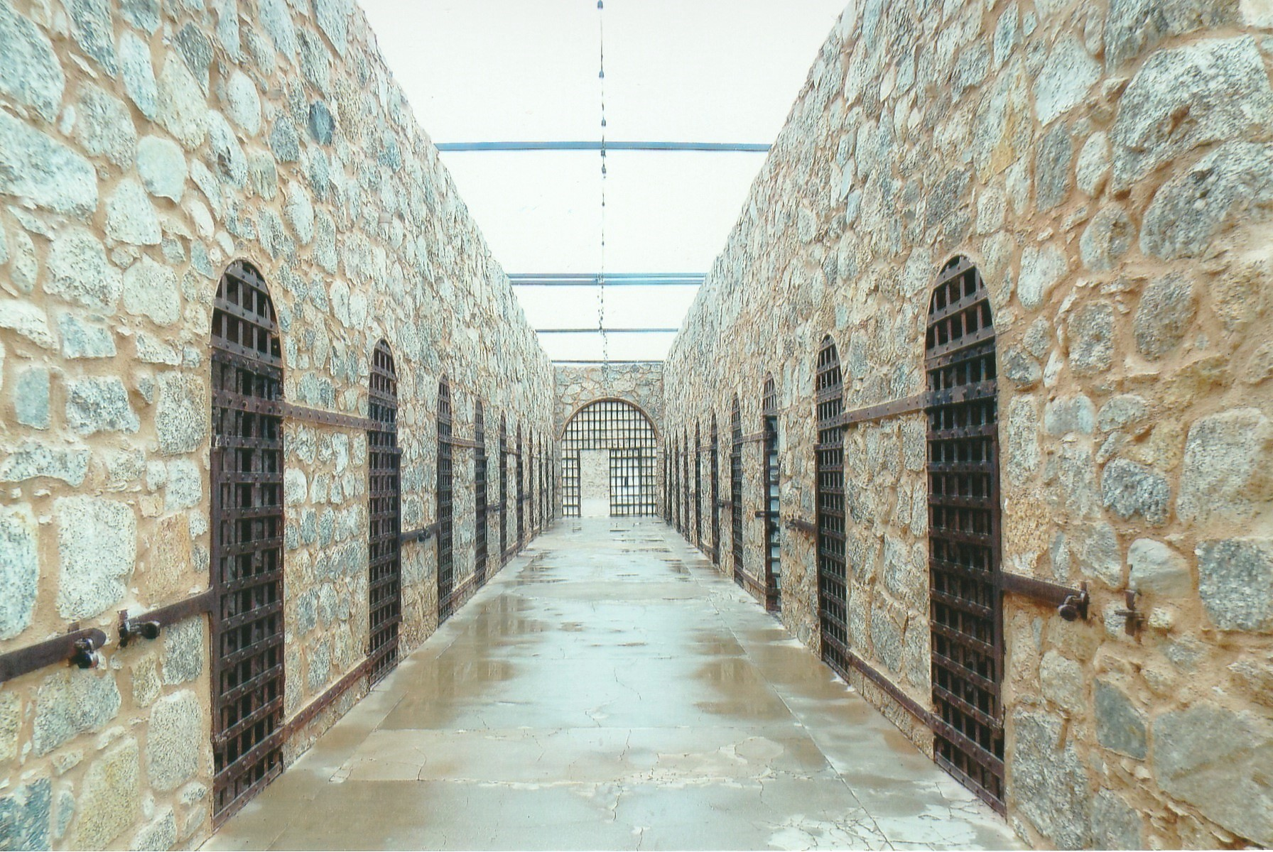 Yumja Territorial Prison cells